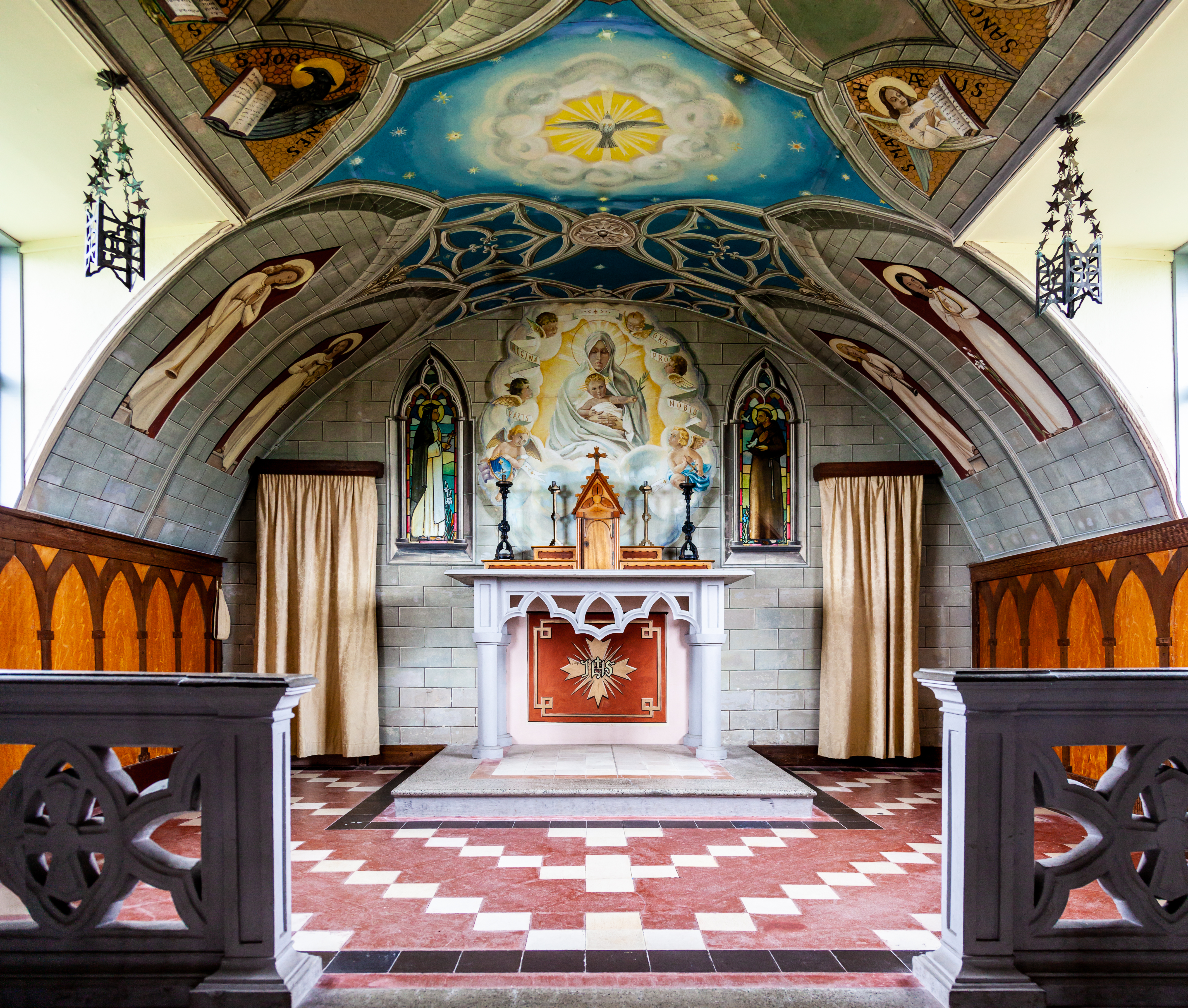 Italian Chapel (interior), Lamb Holm, Orkney Wikidata has entry Q17570998 with data related to this item.